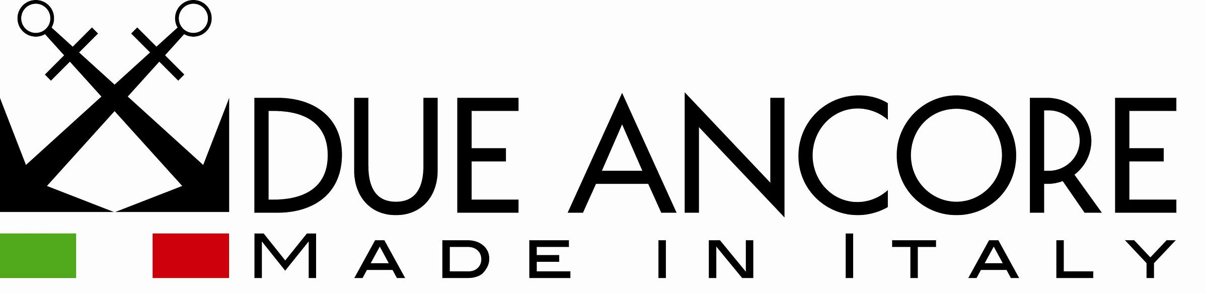 Brand name and logo